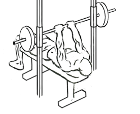 an exercise of triceps